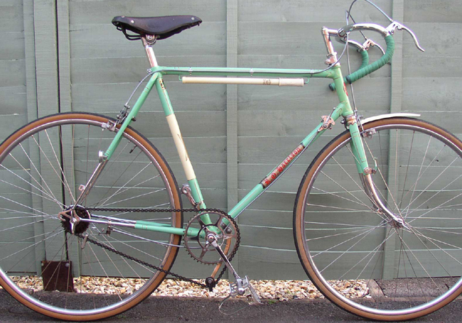 Photograph of an R. O. Harrison "Harry Grant" Super Circuit, named after British racing cyclist Harry Grant.